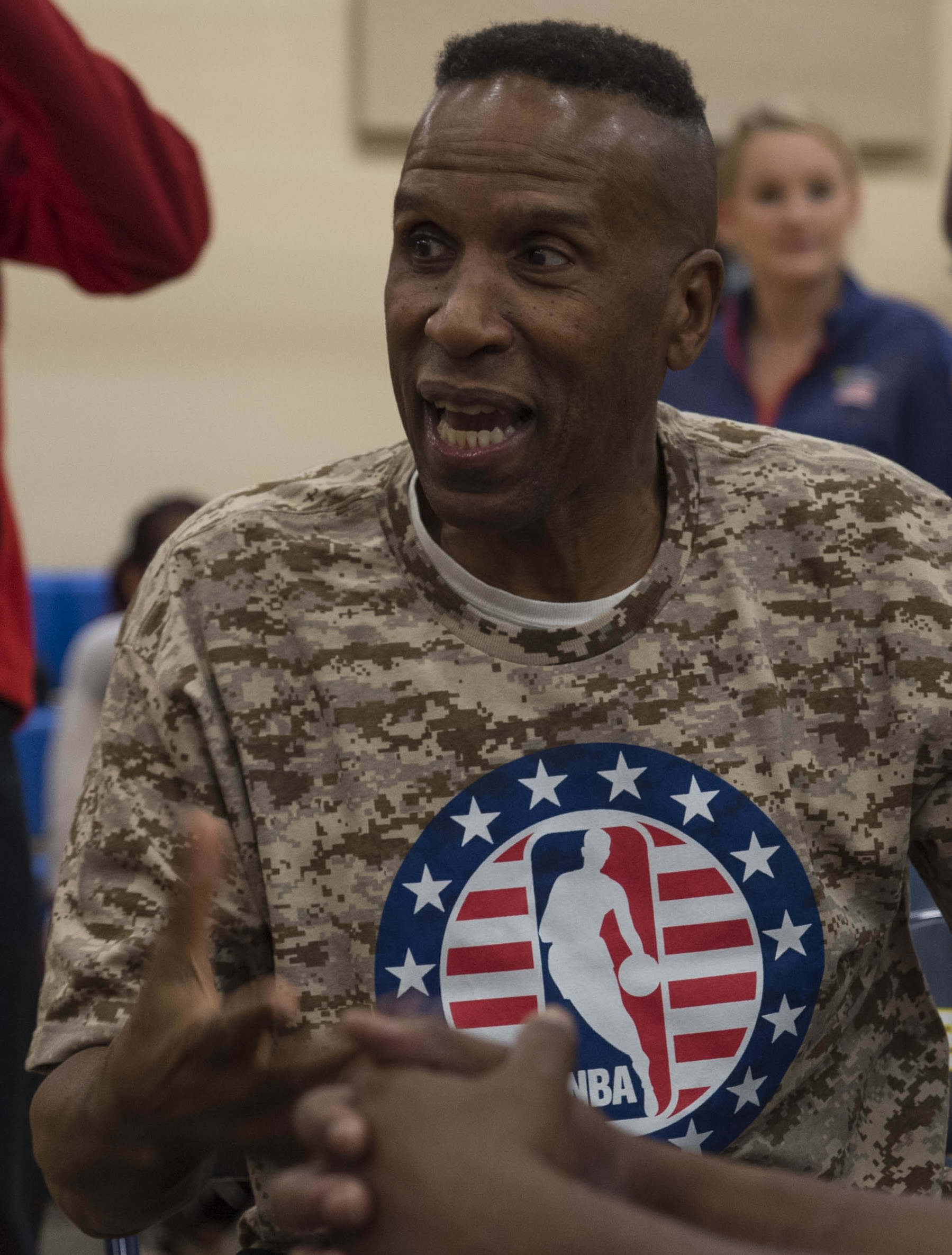 Naval Support Activity Bethesda hosted NBA Hoops for Troops Nov. 9. The event was a wheelchair basketball game played by service members and coached by former NBA player Adirian Dantley and WBNA player Tayler Hill. (U.S. Navy photo by Mass Communication Specialist 2nd Class William Phillips/Released)